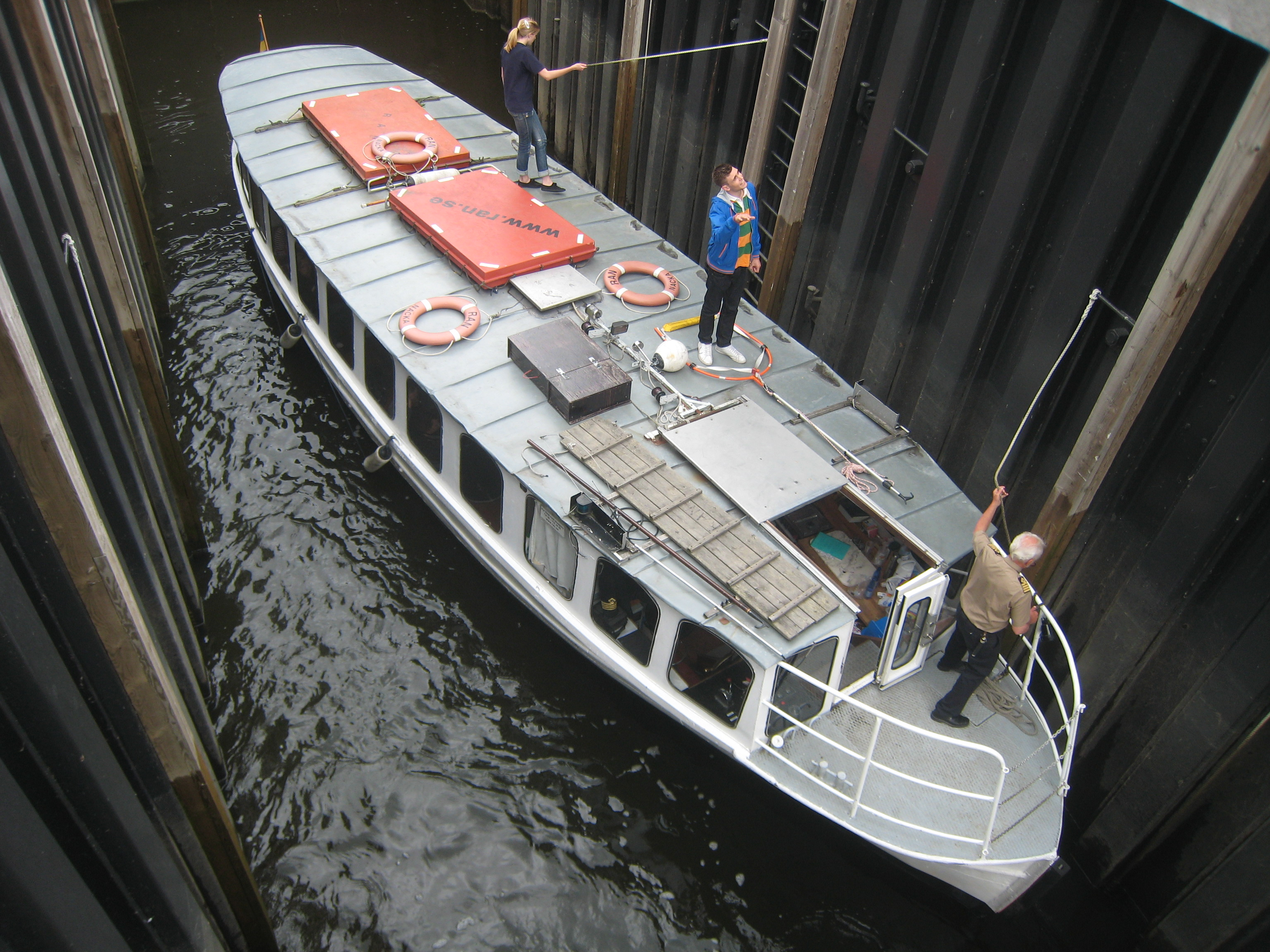 M/S Ran in Sickla Sluss